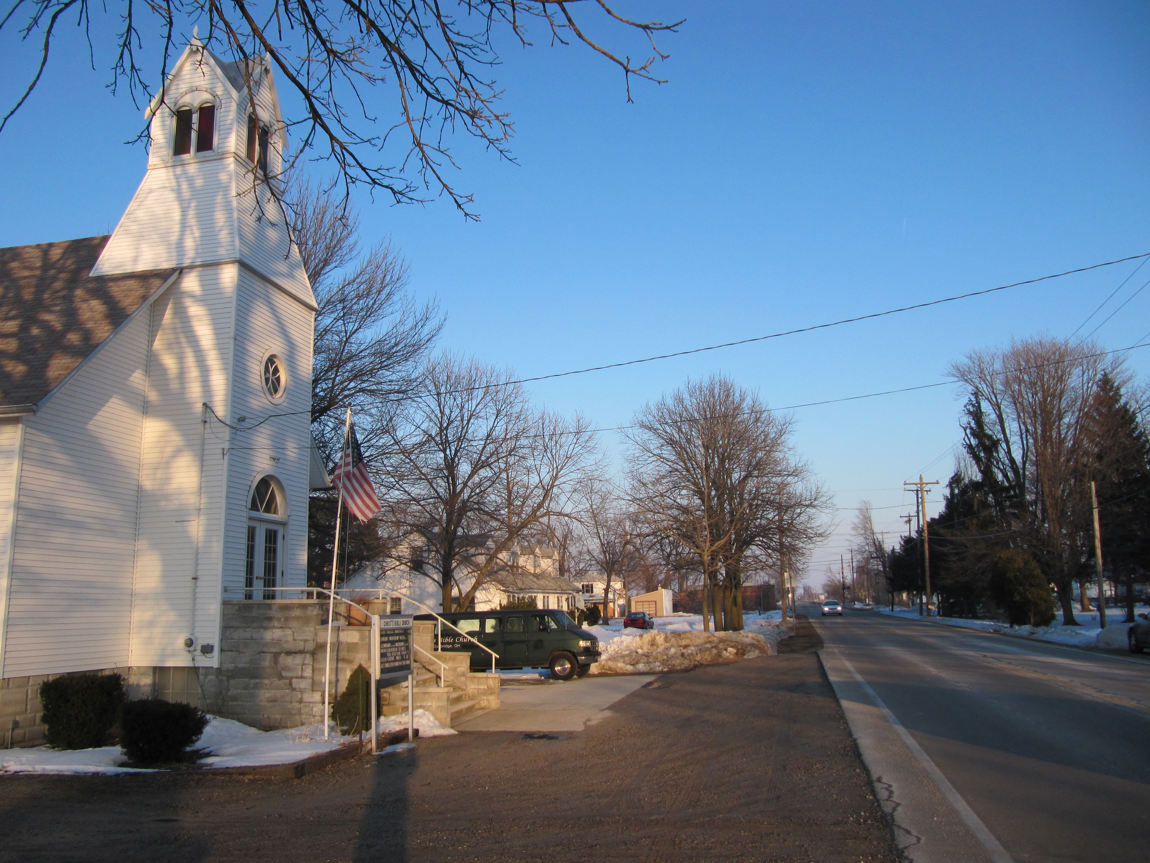 Photograph of the unincorporated community of Dunbridge, Ohioen, taken at street level from Middleton Pike by the Christ's Bible Church, looking East on Ohio State Route 582.